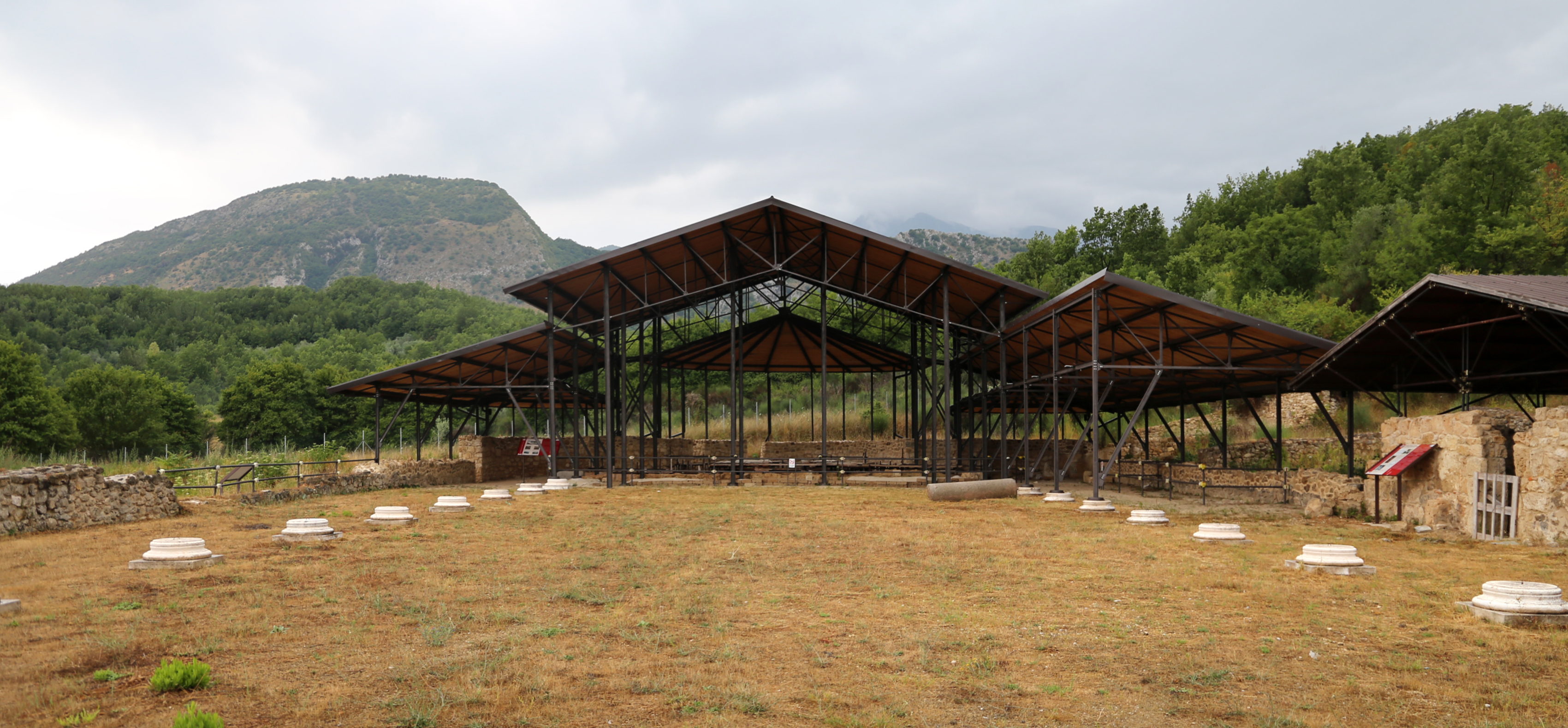 San Vincenzo al Volturno Old Abbey